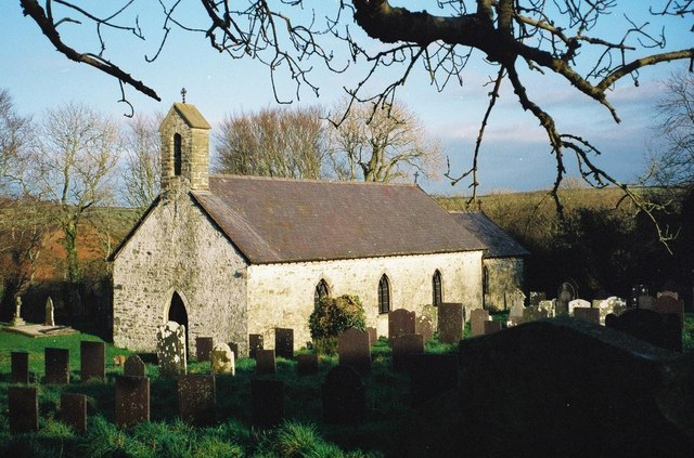 The parish church of St Tysilio, Nanternis, Ceredigion, seen from the west